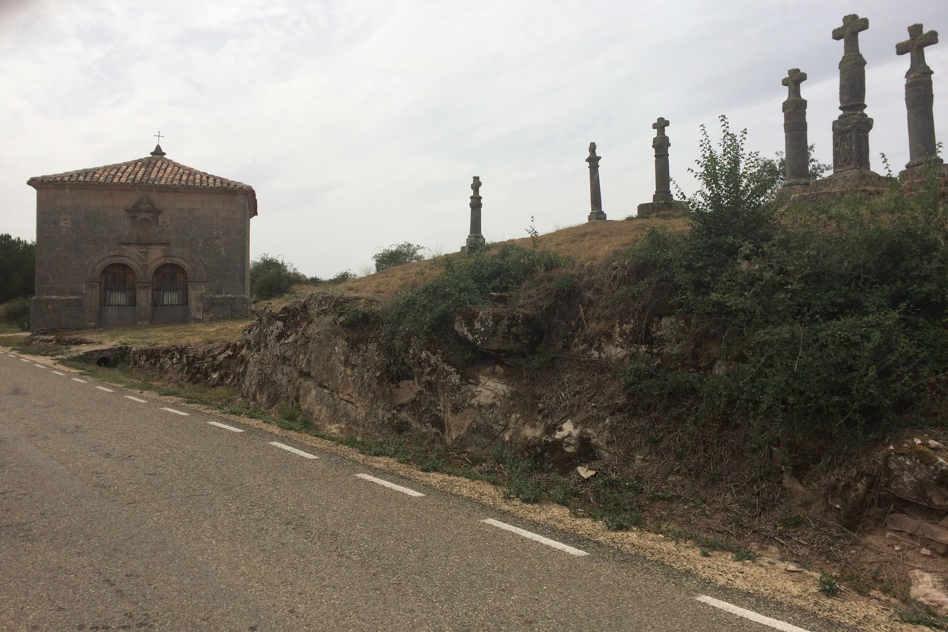 Ermita de la Virgen de la Soledad. Romanillos de Medinaceli (Soria). España